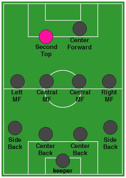 Position of SecondTop